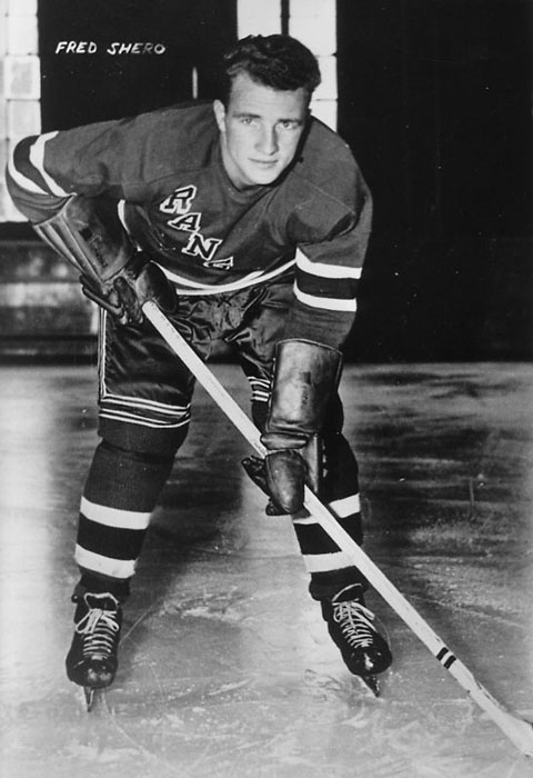 Fred Shero when he was a player with the New York Rangers